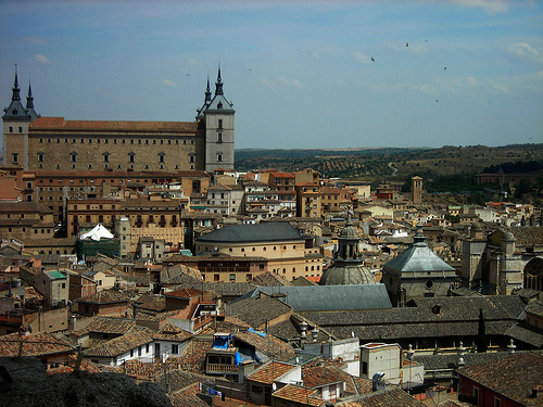 The Alcázar of Toledo, on the left in the image.